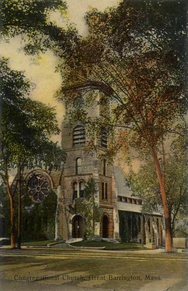 Congregational Church, Great Barrington, MA; from a c. 1910 postcard. It was built in 1882.